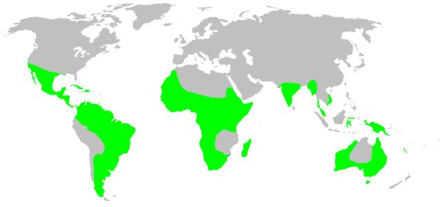 Deinopidae habitat distribution, drawn after Platnick: World Spider Catalog 7.0. This is not a precise rendering of the distribution! If you have better information, please replace this map, or send me the info, and i will redraw it.